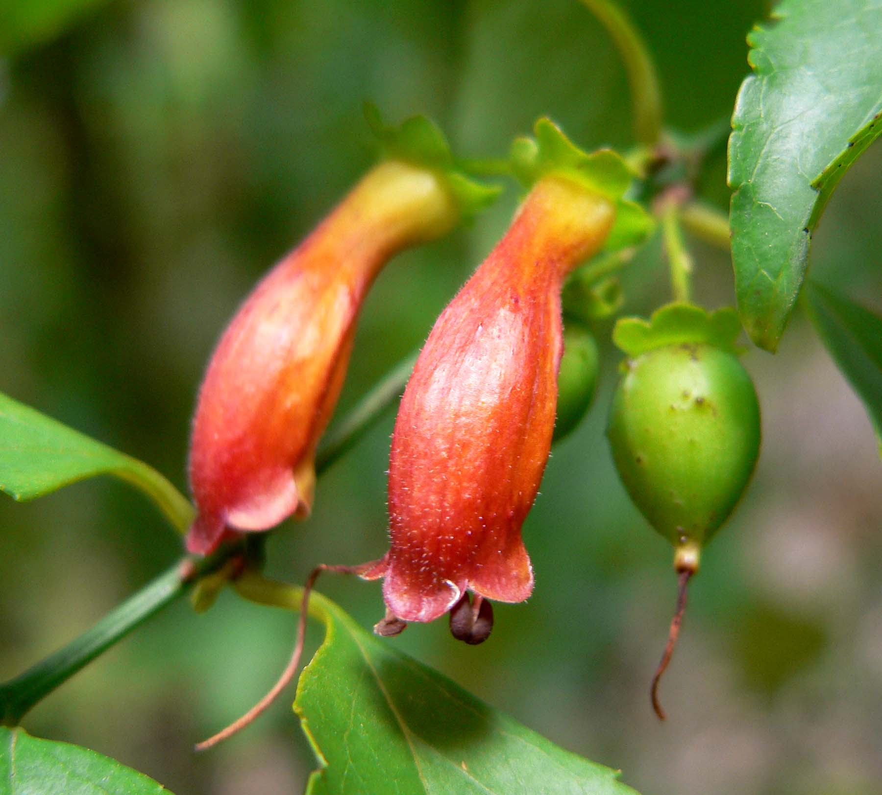 Photo of Halleria lucida at the University of California Botanical Garden